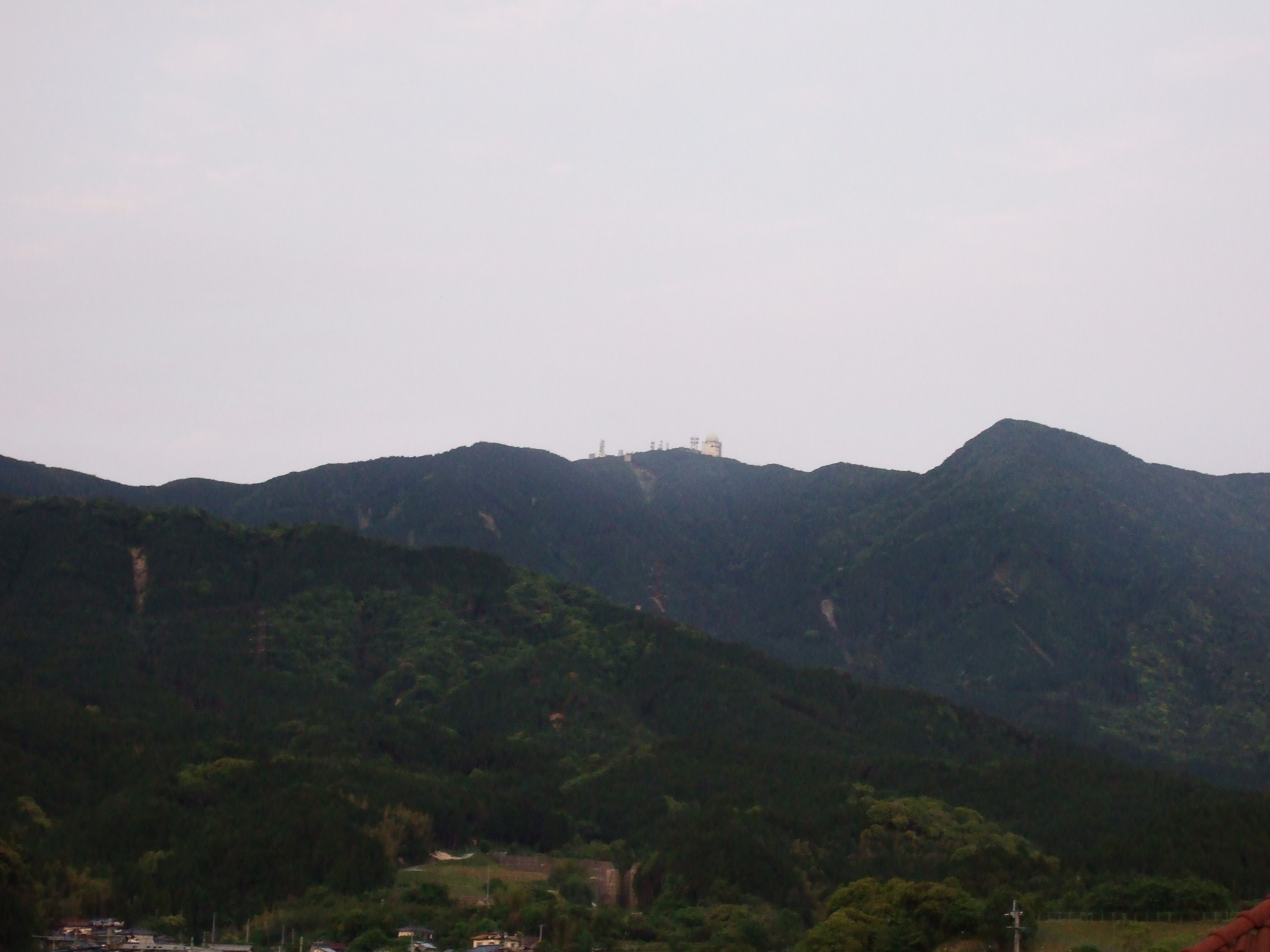 Mt.Sangun, on the border between the cities of Chikushino, Iizuka and the town of Umi, in Kasuya District.